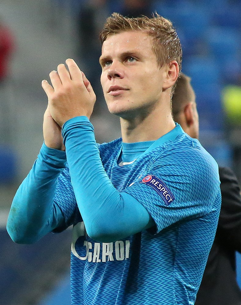 Aleksandr Kokorin